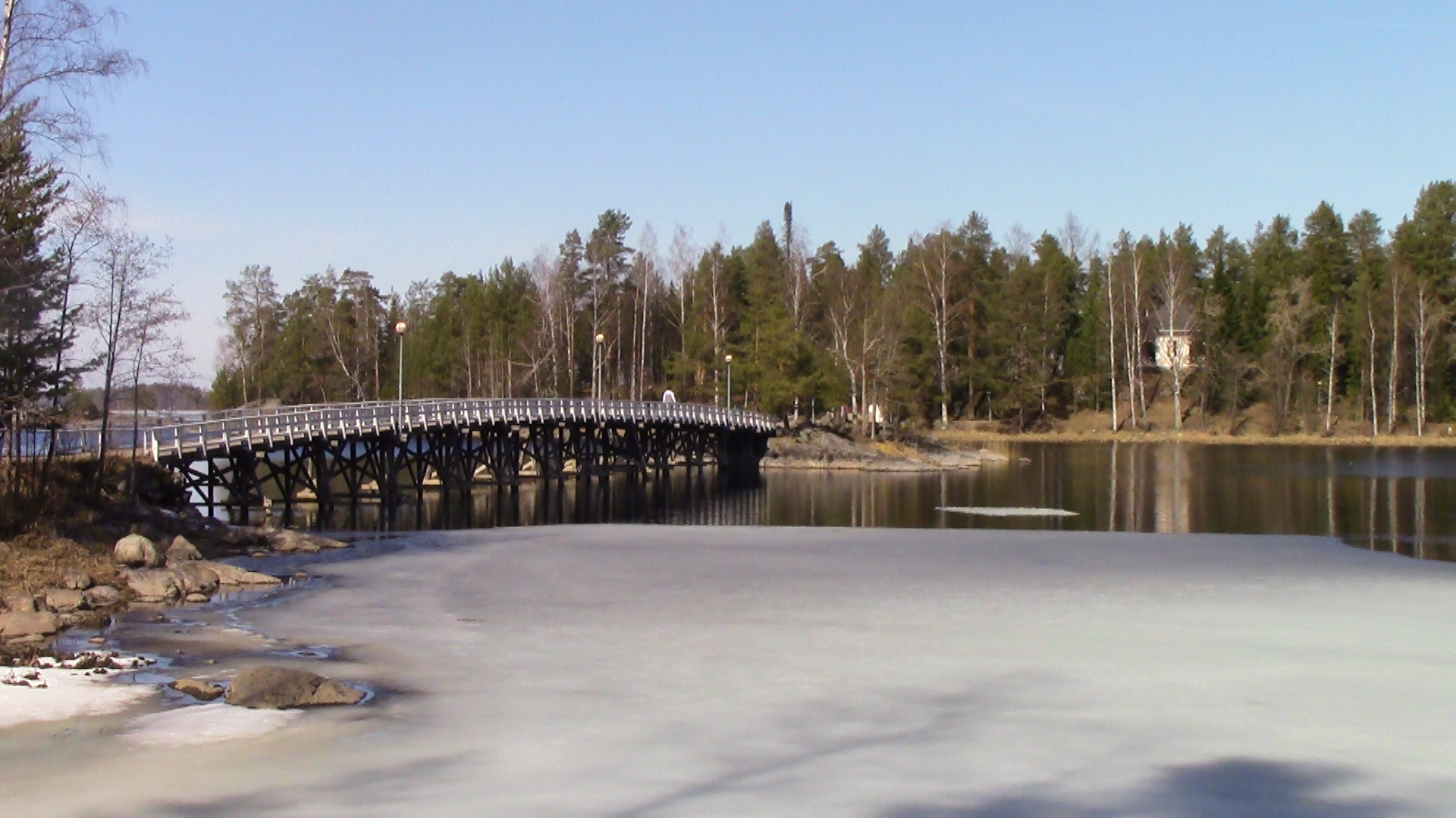 Sulosaari island and a bridge that leads in there in Savonlinna. In front of them you can see Hopeasalmi bay.